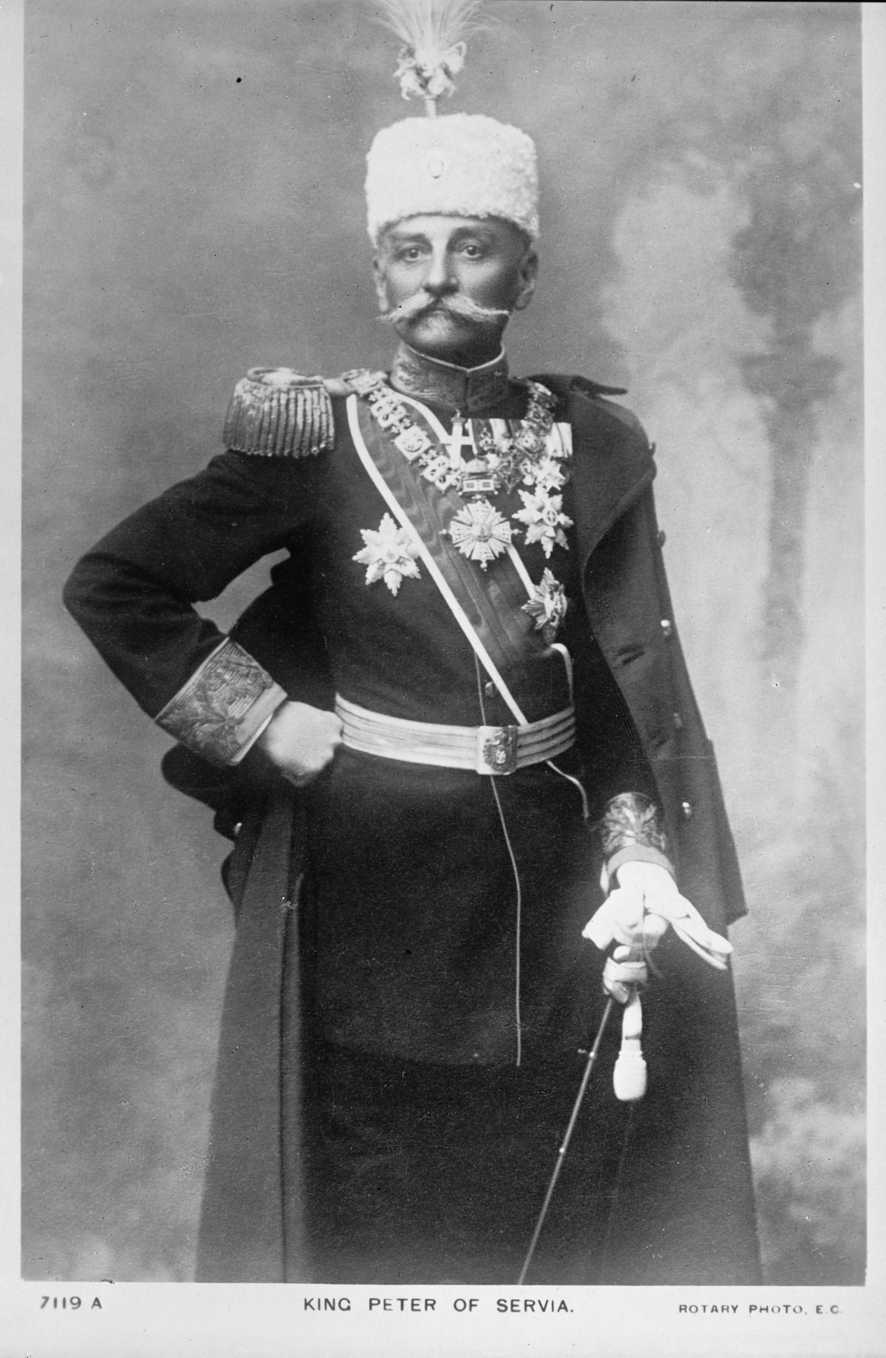 King Peter I of Serbia